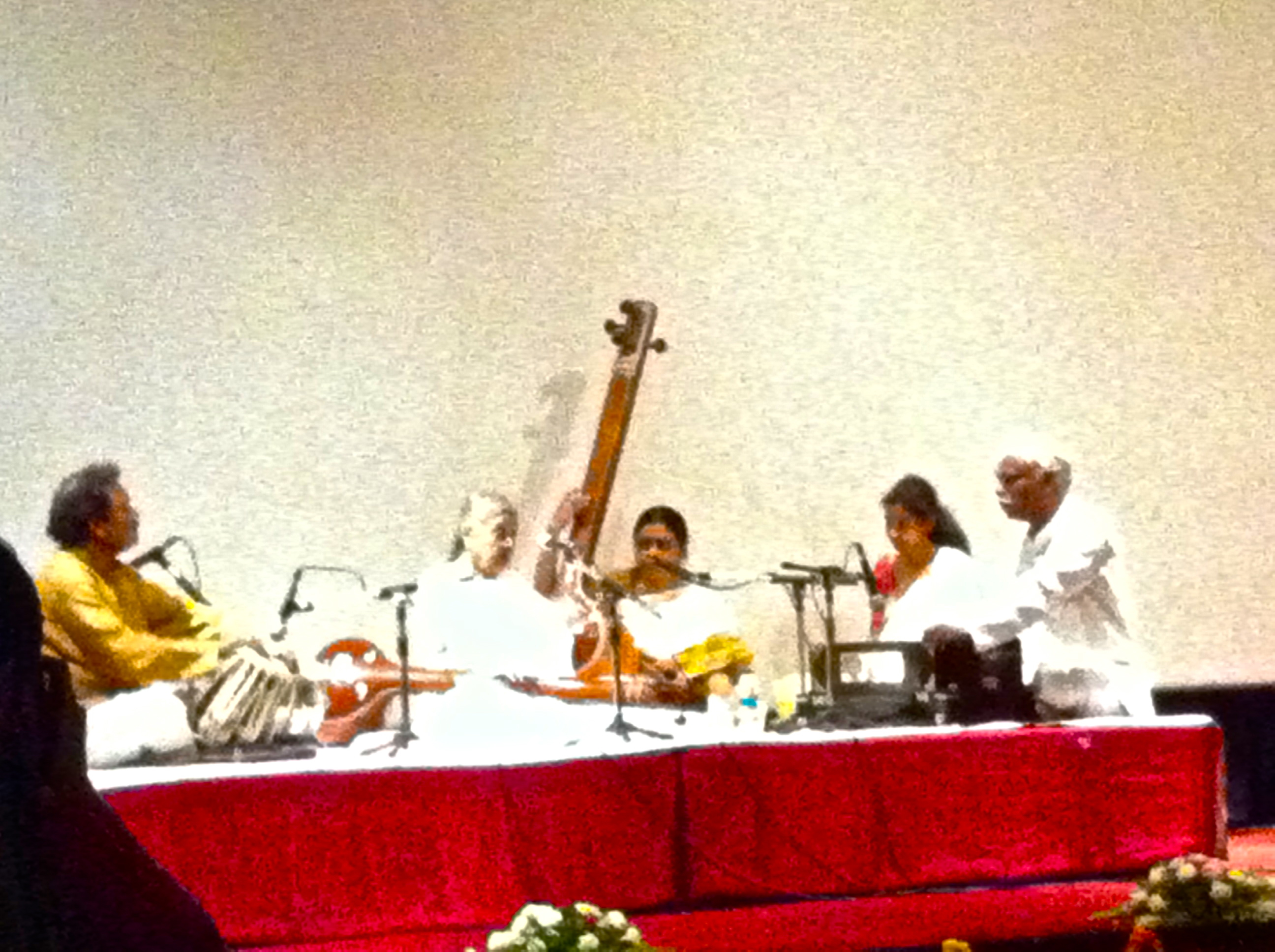 Sunanda Patnaik performing in New Delhi. This media file is uploaded with Odia loves Wikipedia English |italiano |македонски |മലയാളം |ଓଡ଼ିଆ +/−